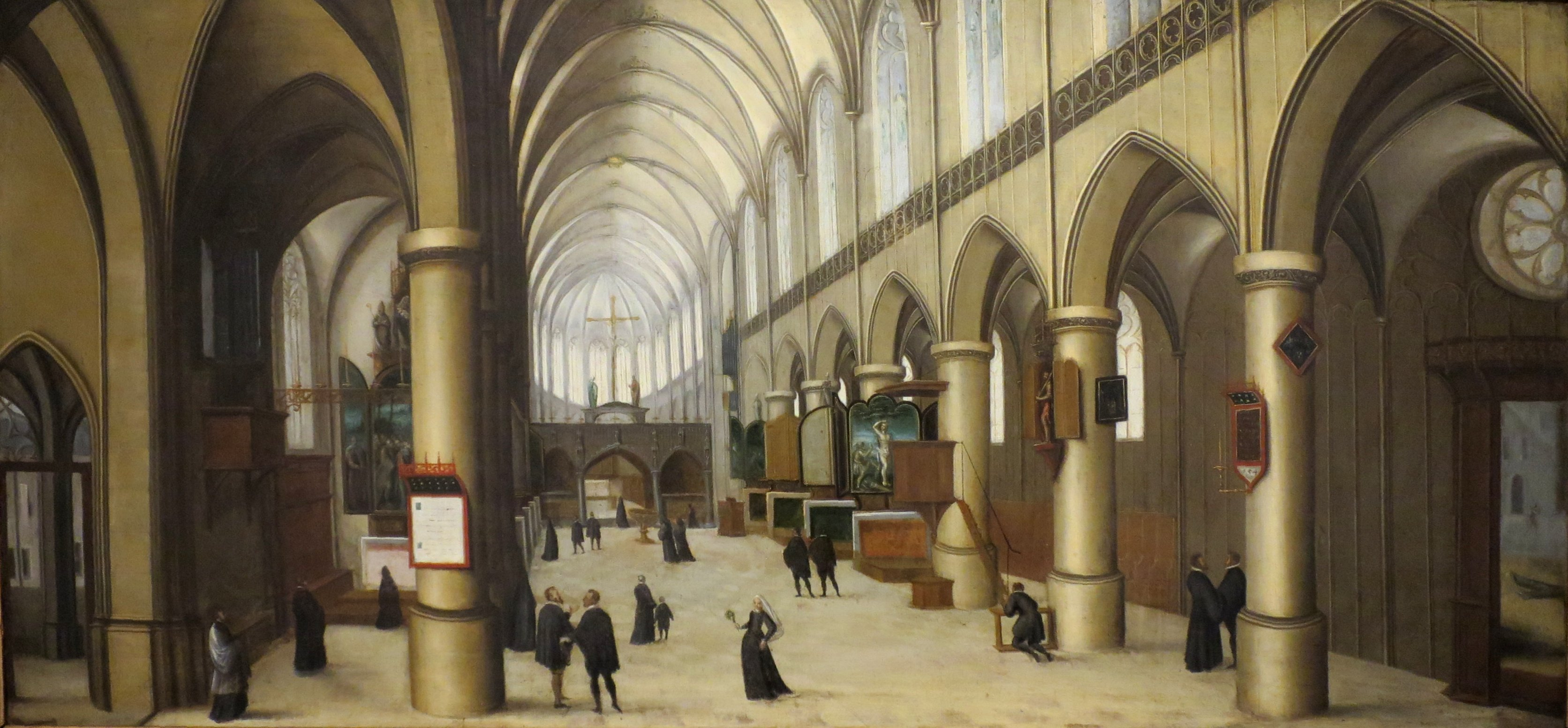 Church Interior by Hendrik van Steenwijck the elder, c. 1580-1600, oil on canvas, Bergen Kunstmuseum